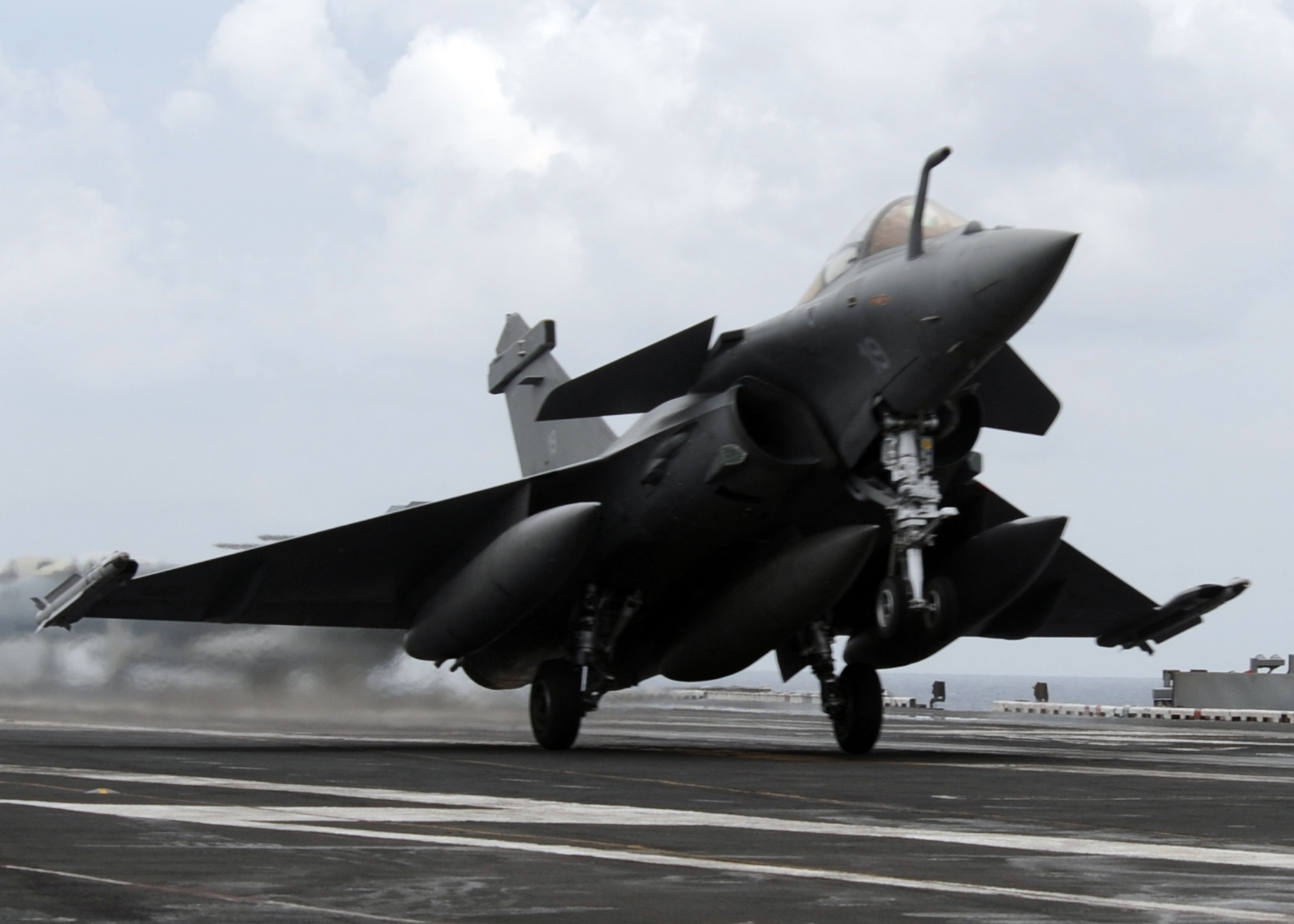 090719-N-9988F-169 ATLANTIC OCEAN (July 19, 2009) A French Dassault Rafale fighter aircraft conducts touch and go landings aboard the aircraft carrier USS Dwight D. Eisenhower (CVN 69) during a coalition training exercise.